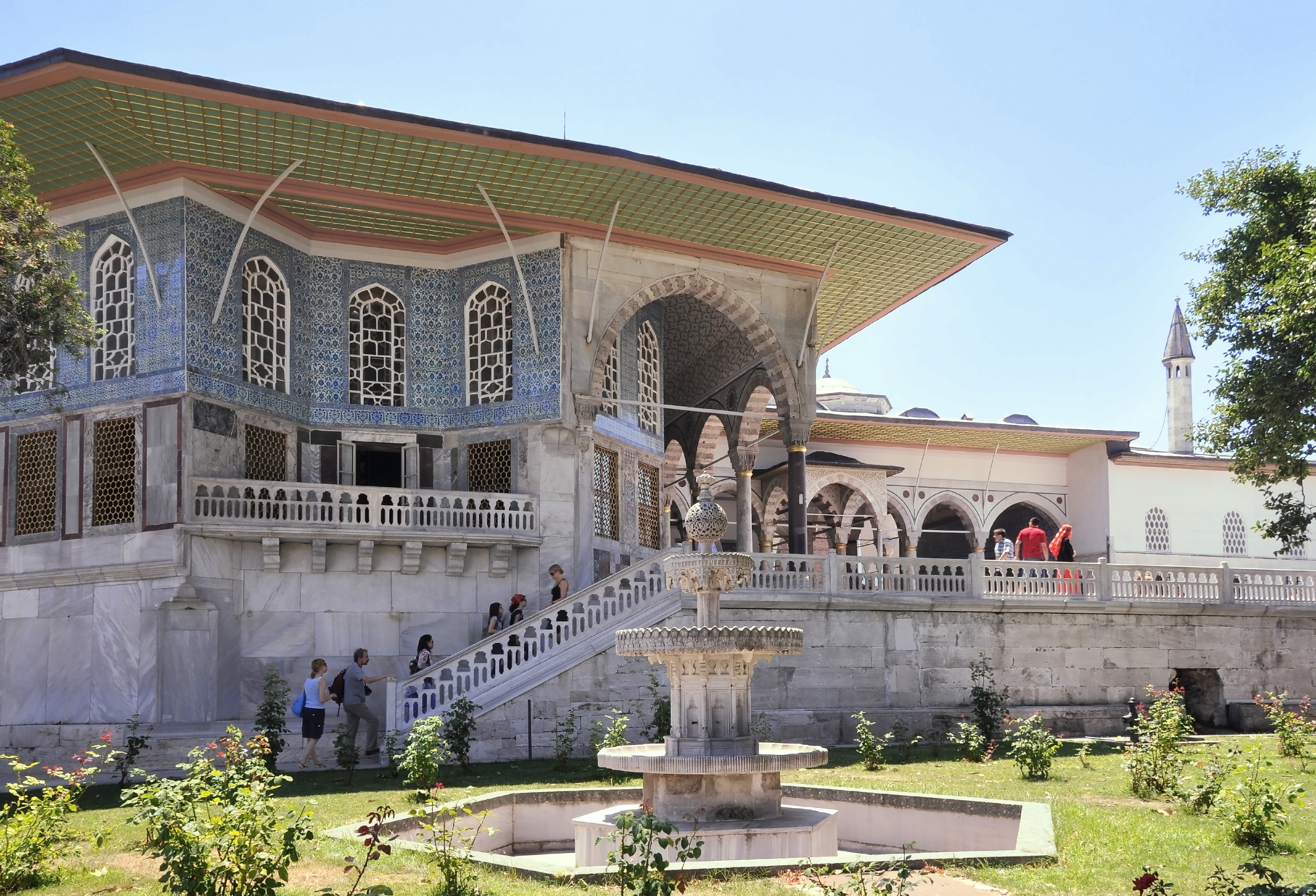 Yerevan Kiosk (Revan Köşkü) in the Fourth Courtyard of the Topkapı Palace in Istanbul, Turkey.